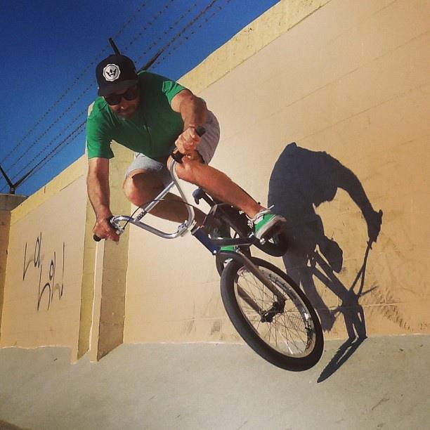 Session BMX